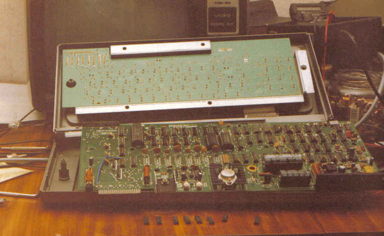 TRS80 model 1 with keyboard unscrewed and opened for adding extra memory (not the official way). By replacing the 16kbit memory modules by 64kbit memory modules and adding & changing some wiring the TRS-80 could use 48kbyte now (16 kB remains unused).